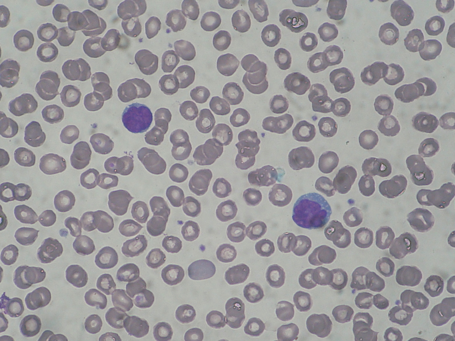 Sezary cells: pleomorphic abnormal T cells with convoluted nucleus seen in mycosis fungoides (leukemic phase).